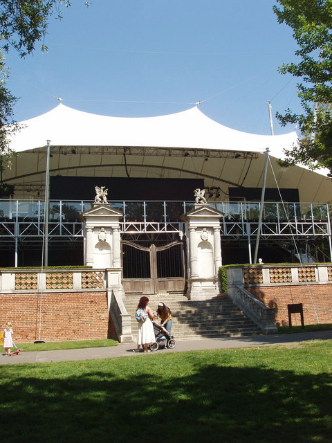 1629 gate piers by Inigo Jones, south entrance to Holland House, Kensington, London. Not in original position. Behind is Holland Park Opera canopy. Holland Park Opera is in the open air, but underneath a canopy, which was redesigned and renewed in 2007. .